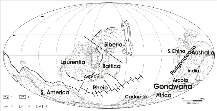 Plate tectonics of Earth during Early Silurian period中文（中国大陆）: 志留纪初期的全球地图